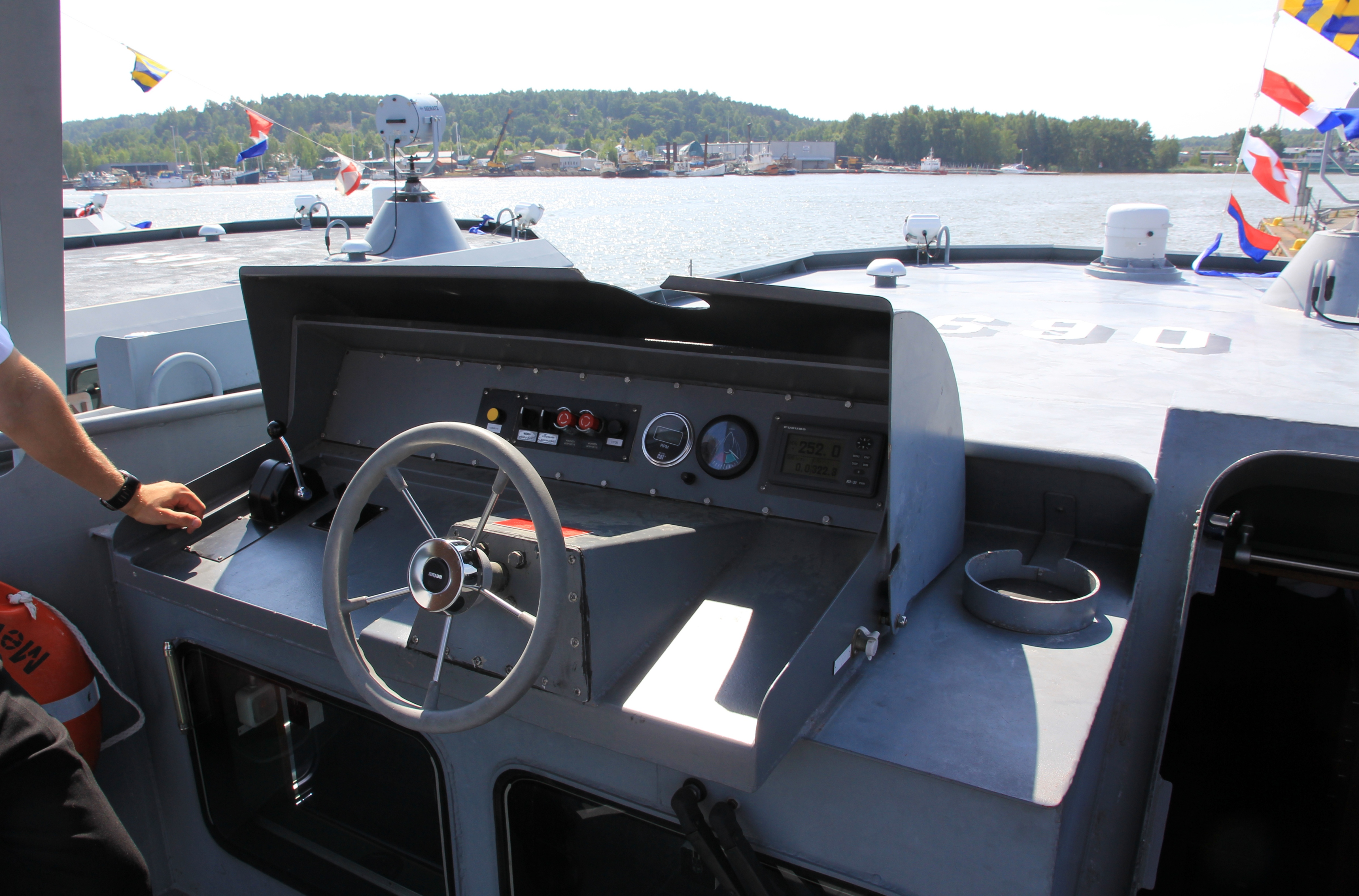 Finnish training ship Fabian Wrede flying bridge. Photographed during Finnish Navy 2011 anniversary in Turku.